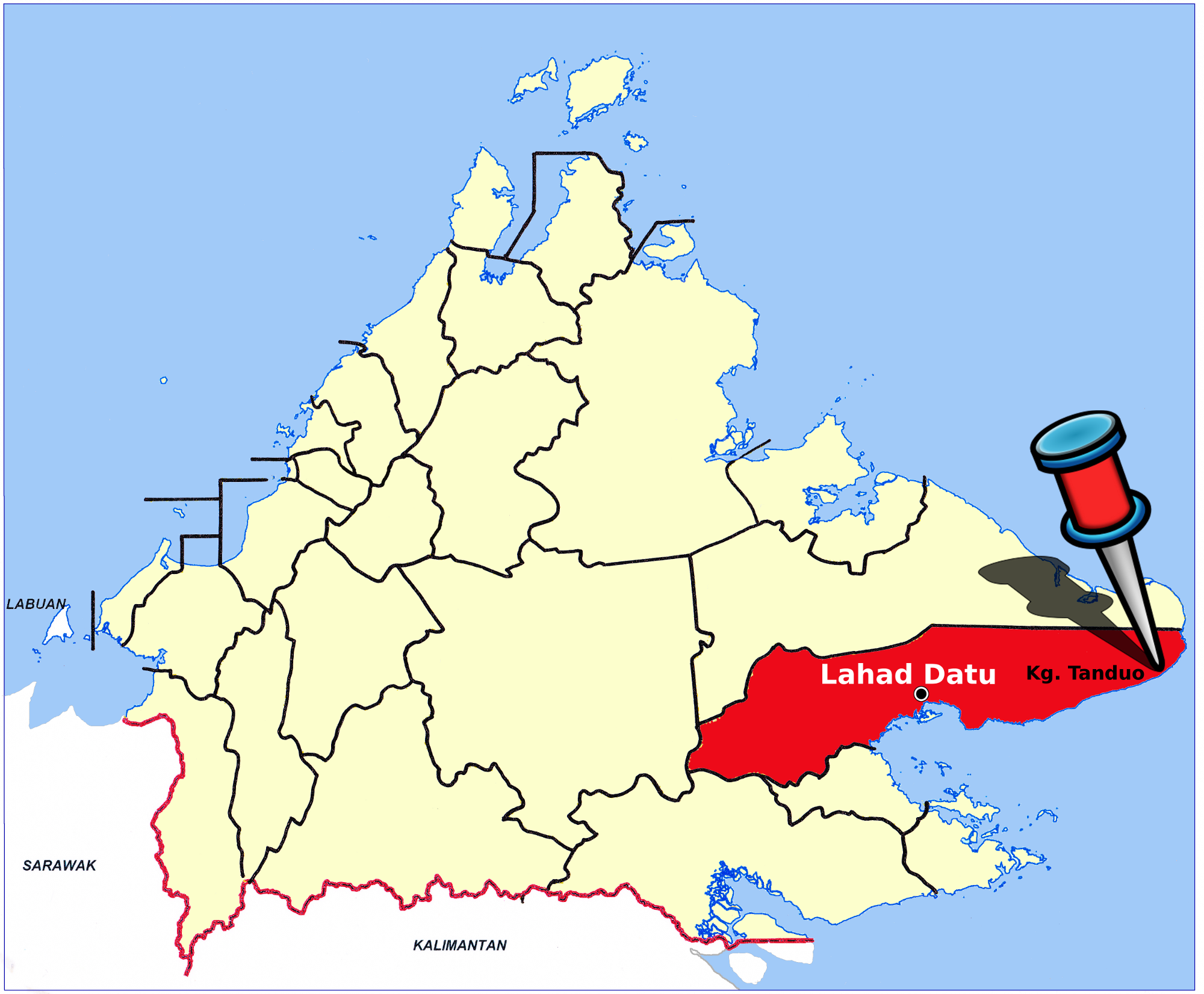 Lahad Datu, Sabah: Location map of The Lahad Datu Standoff 2013